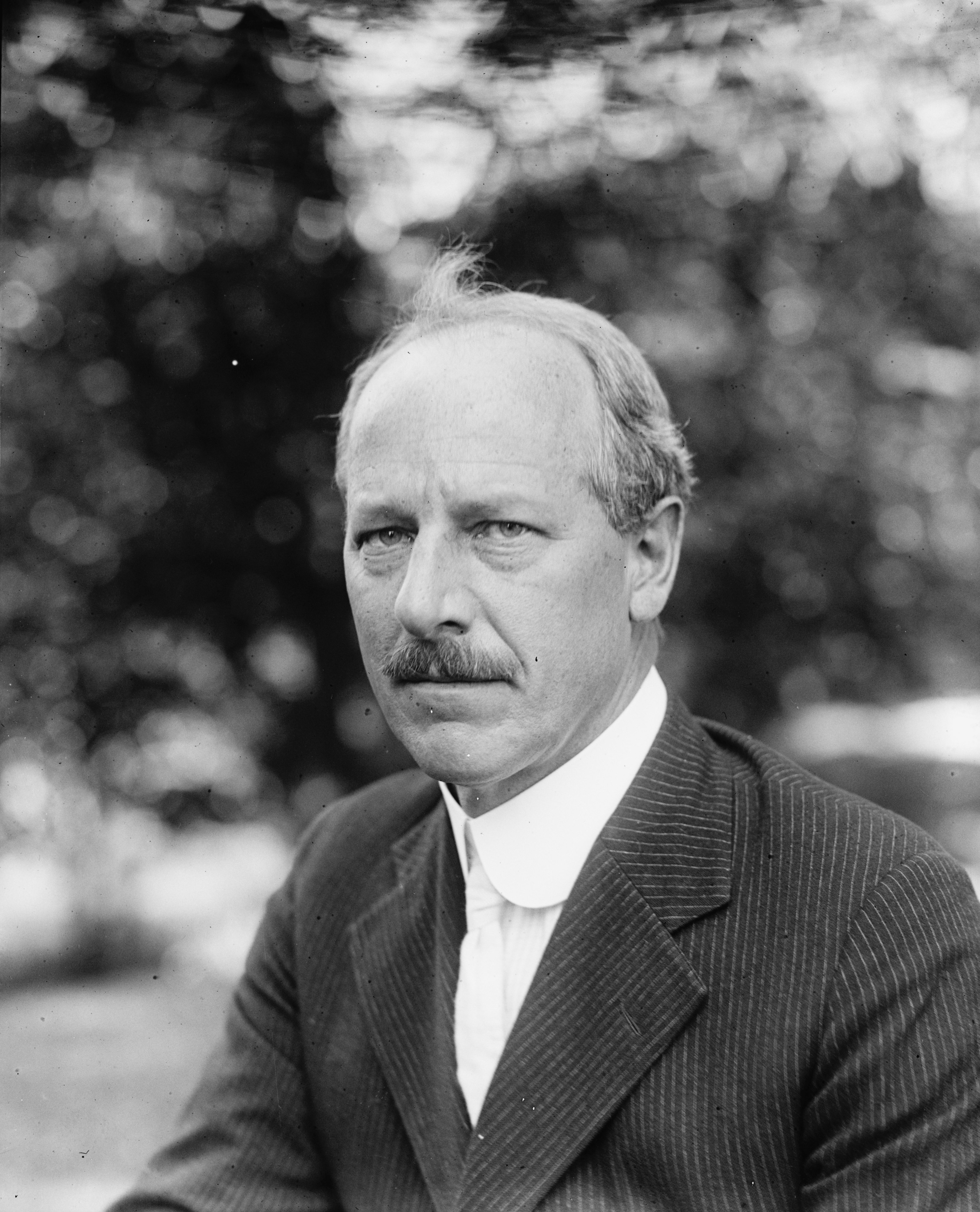 Title: Dr. Arthur L. Day Abstract/medium: National Photo Company Collection (Library of Congress) Physical description: 1 negative